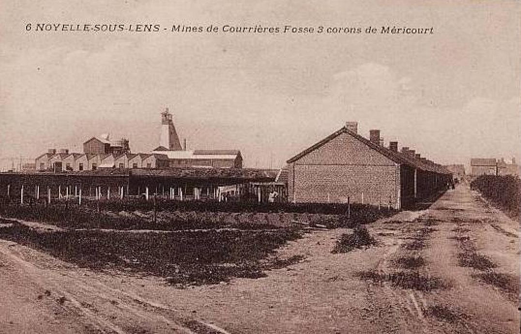 Compagnie des mines de Courrières, France.